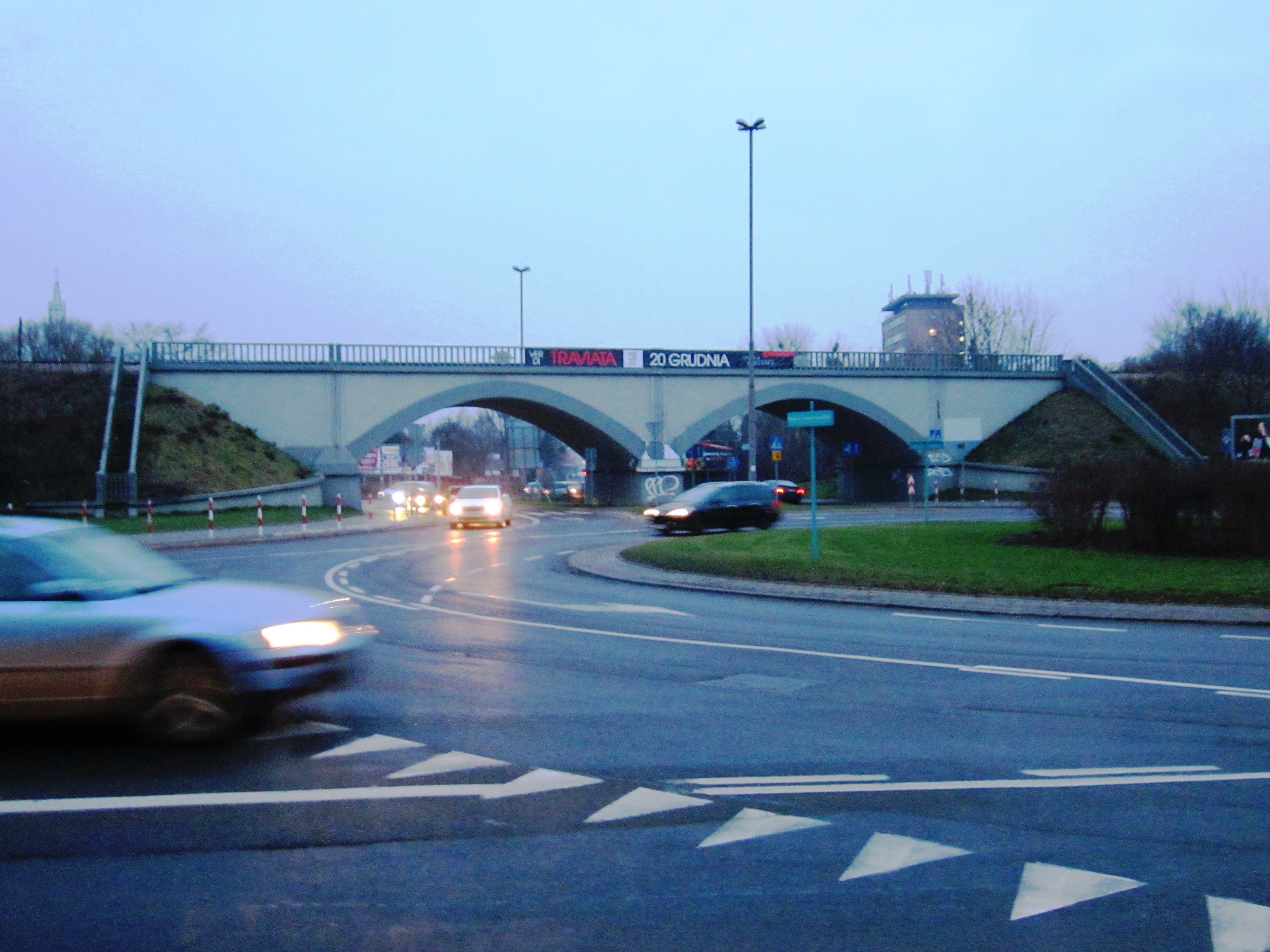 Białystok. Railway viaduct over the street Tysiąclecia